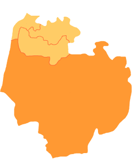 Map of Ma'anshan in Anhui province, without numbers